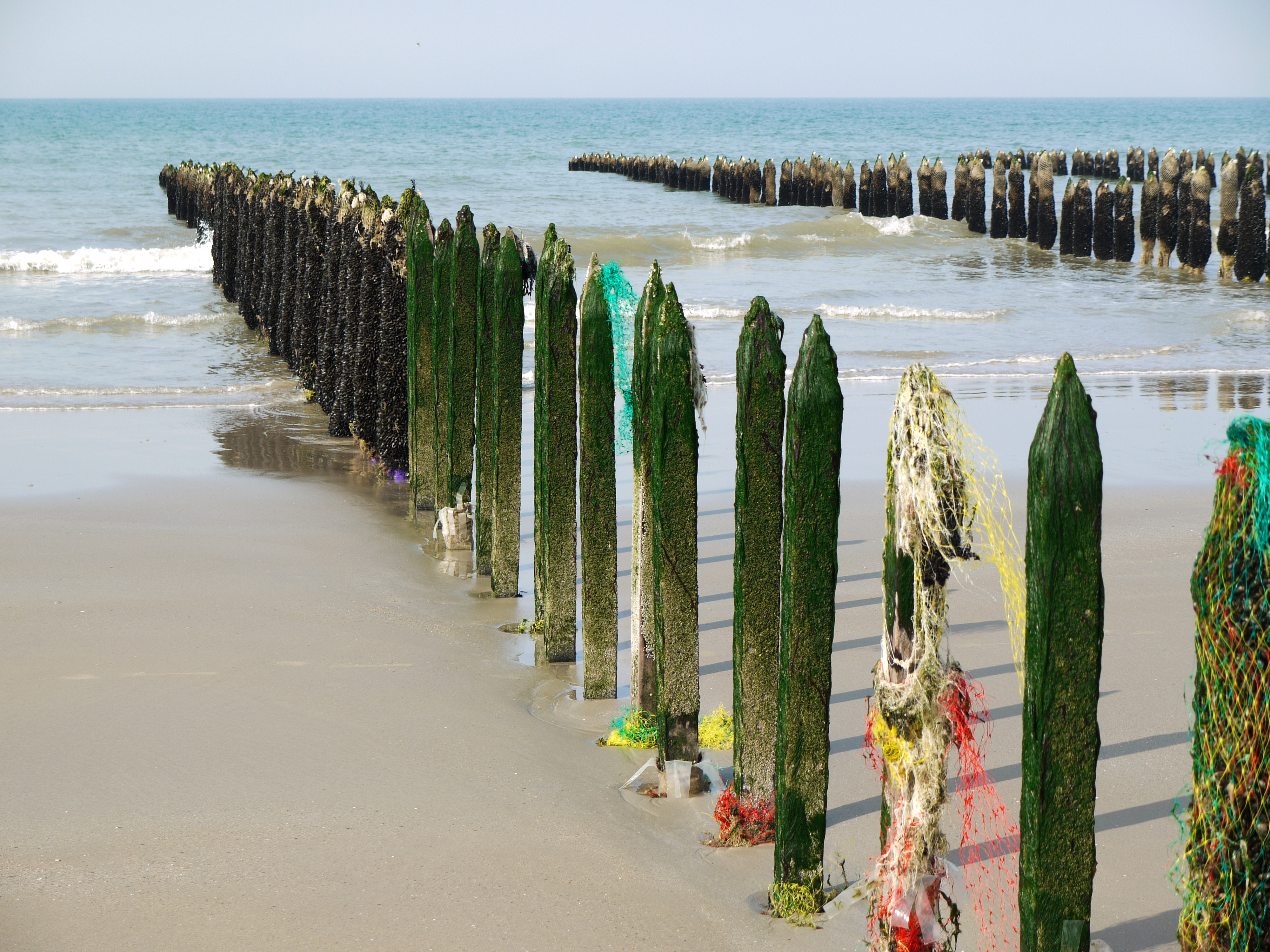 Mussels cultivated on poles. Wissant bay - Pas-de-Calais - France